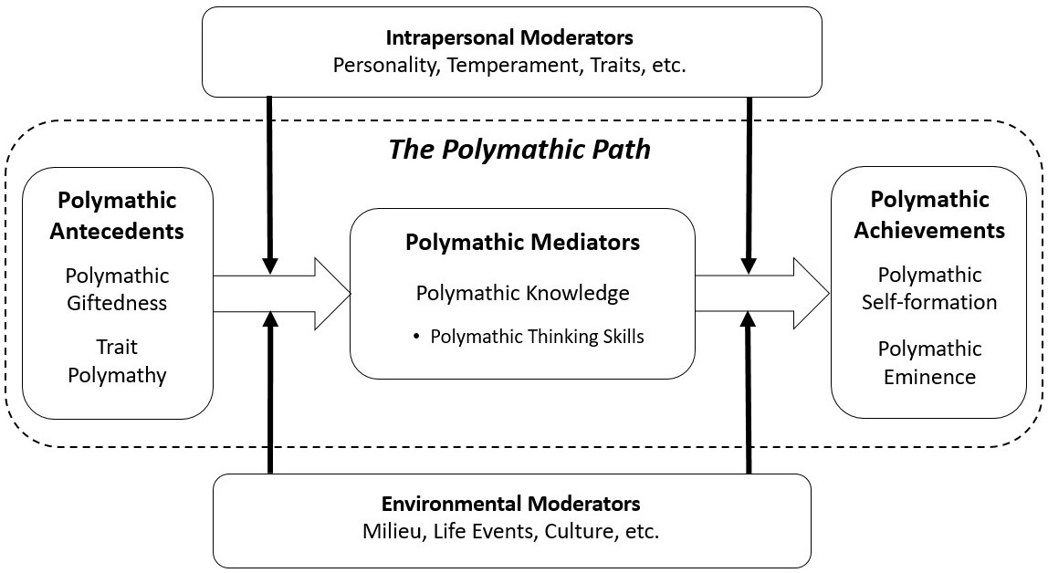 The developmental model of polymathy (DMP) organizes the elements involved in the process of polymathy development into a structure of relationships that is wed to the approach of polymathy as a life project and provide a basis for an articulation with other well-developed constructs, theories and models, especially from the fields of giftedness and education. The model has five major components: (1) polymathic antecedents, (2) polymathic mediators, (3) polymathic achievements, (4) intrapersonal moderators, and (5) environmental moderators. At the center of the model, the first three components (polymathic antecedents, polymathic mediators and polymathic achievements) configure the polymathic path. The polymathic path refers to a sequence of three stages in which a person is expected to go through during their developmental process. The first stage, polymathic antecedents, refers to personality characteristics, aptitudes, and behavioral tendencies that are primordial elements in a polymathic life project. The second stage, polymathic mediators, refers to stores of mathemata and procedural skills that are acquired and developed along a person’s life; they are pivotal for one’s progress toward polymathic goals. The third stage, polymathic achievements, refers to attainments and outcomes that represent the pinnacle of the polymathic development; they include valuable personal achievements as well as the generation of valuable contributions to society. It is important to note that, although the elements of each stage are organized in a sequential order, feedback effects among them are expected. These effects are not shown in the model’s figure for the sake of parsimony.